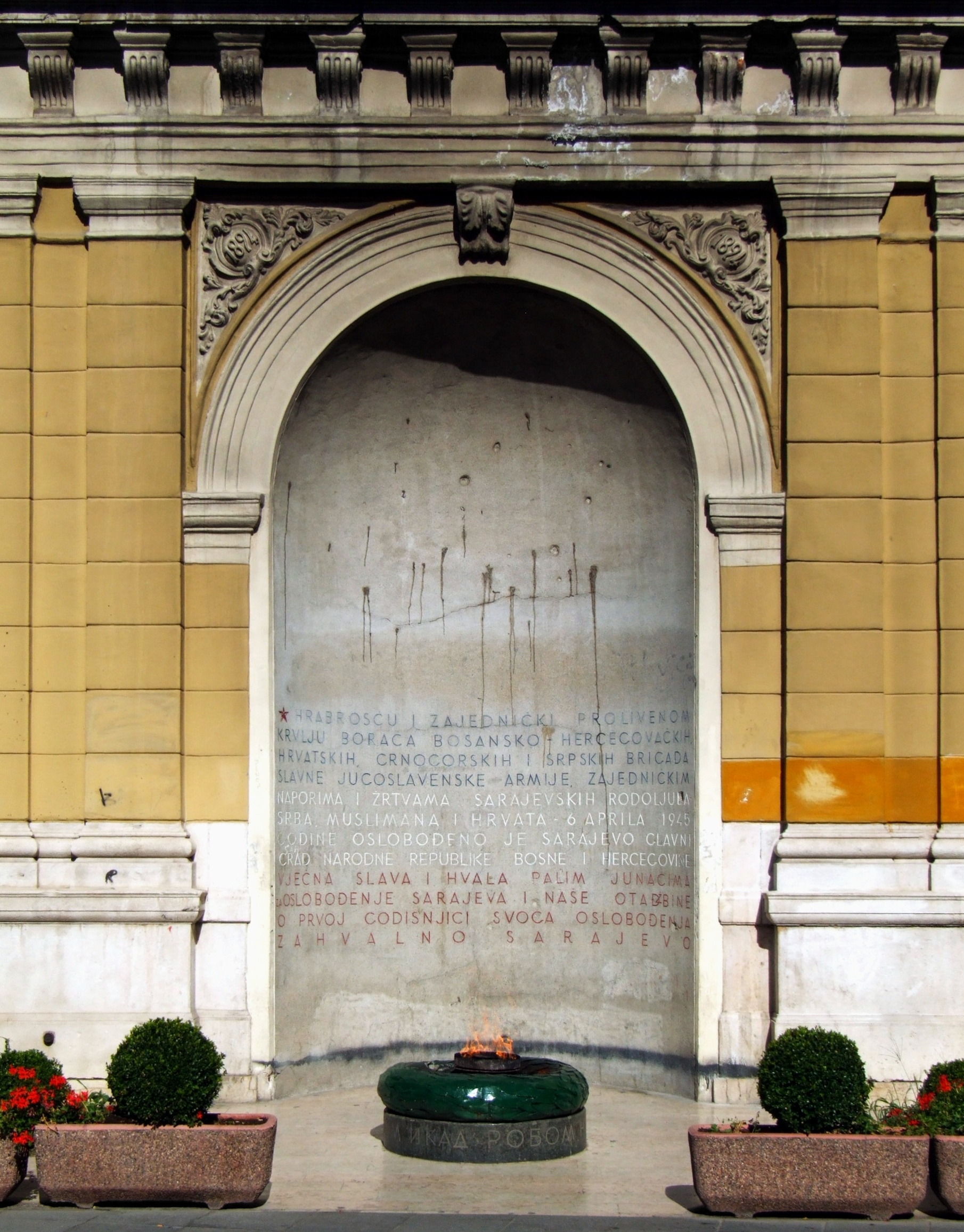 Eternal frame, Sarajevo